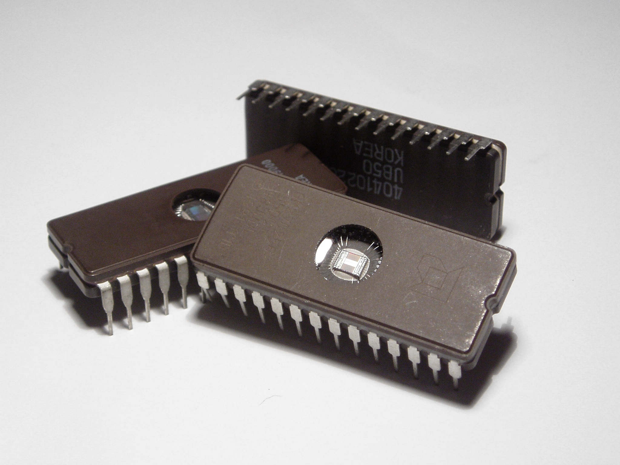 Microchips (EPROM memory) with a transparent window, showing the integrated circuit inside. Note the fine silver-colored wires that connect the integrated circuit to the pins of the package. The window allows the memory contents of the chip to be erased, by exposure to strong ultraviolet light in an eraser device. Uploaded by Richard Wheeler (Zephyris) 2007.